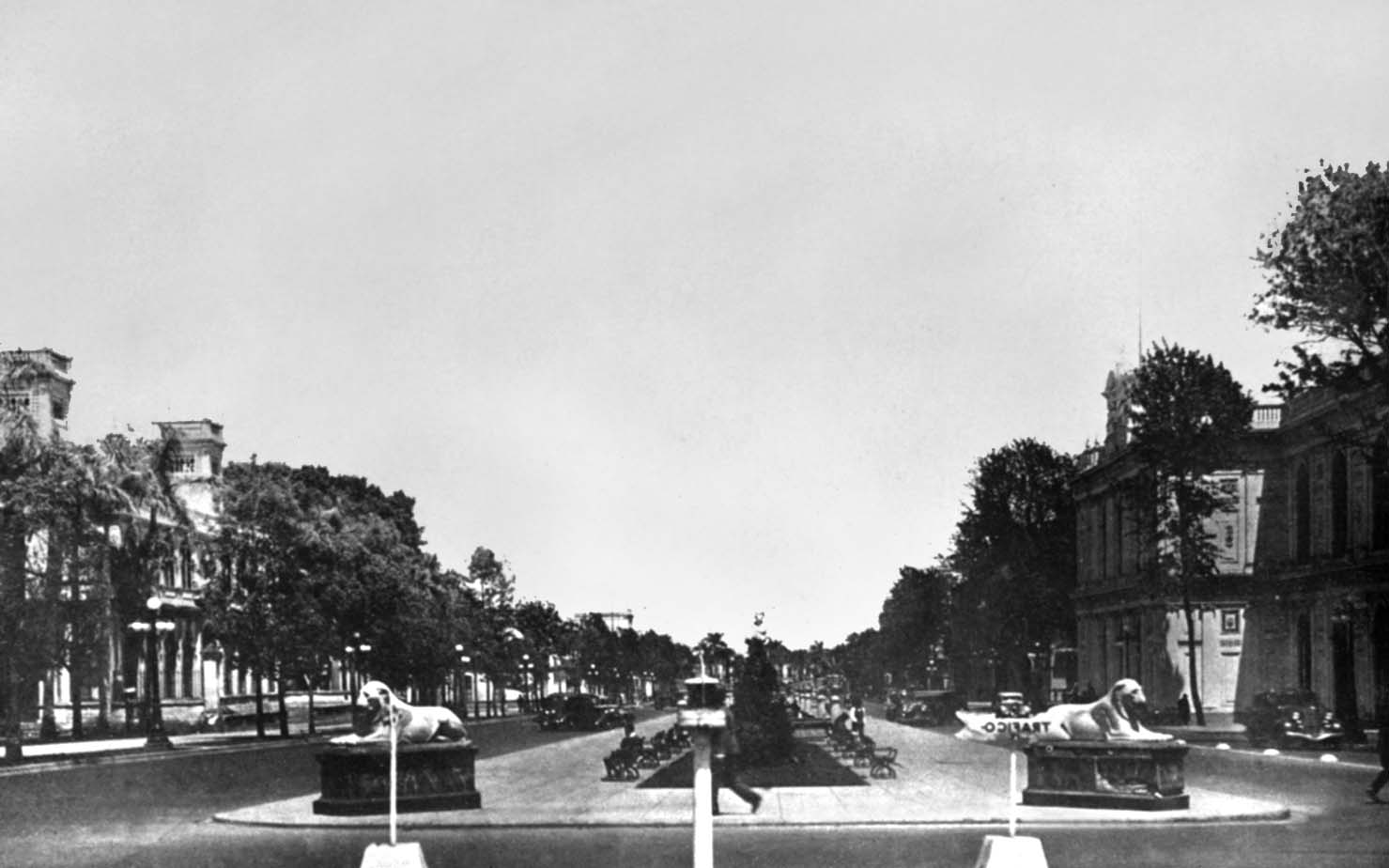 9th of December Avenue in the first half of the 20th Century. Lima, Peru